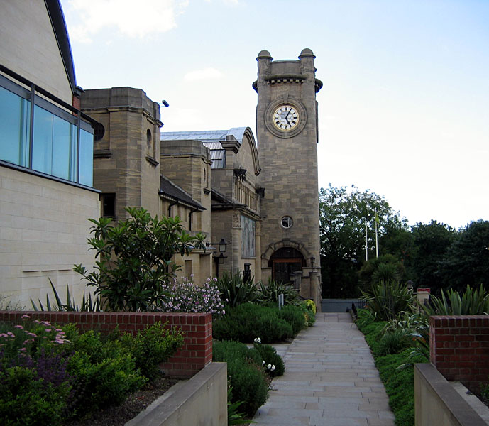 Front of the Horniman Museum taken by C Ford 6th July 2004